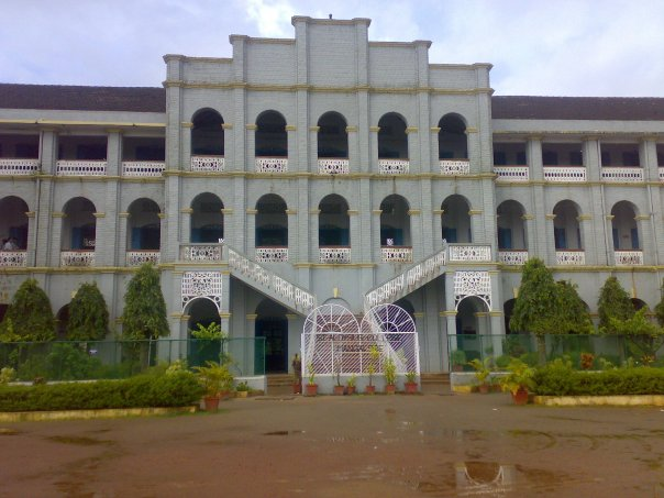 This is an image of St. Aloysius College, Mangalore. (Administration block)